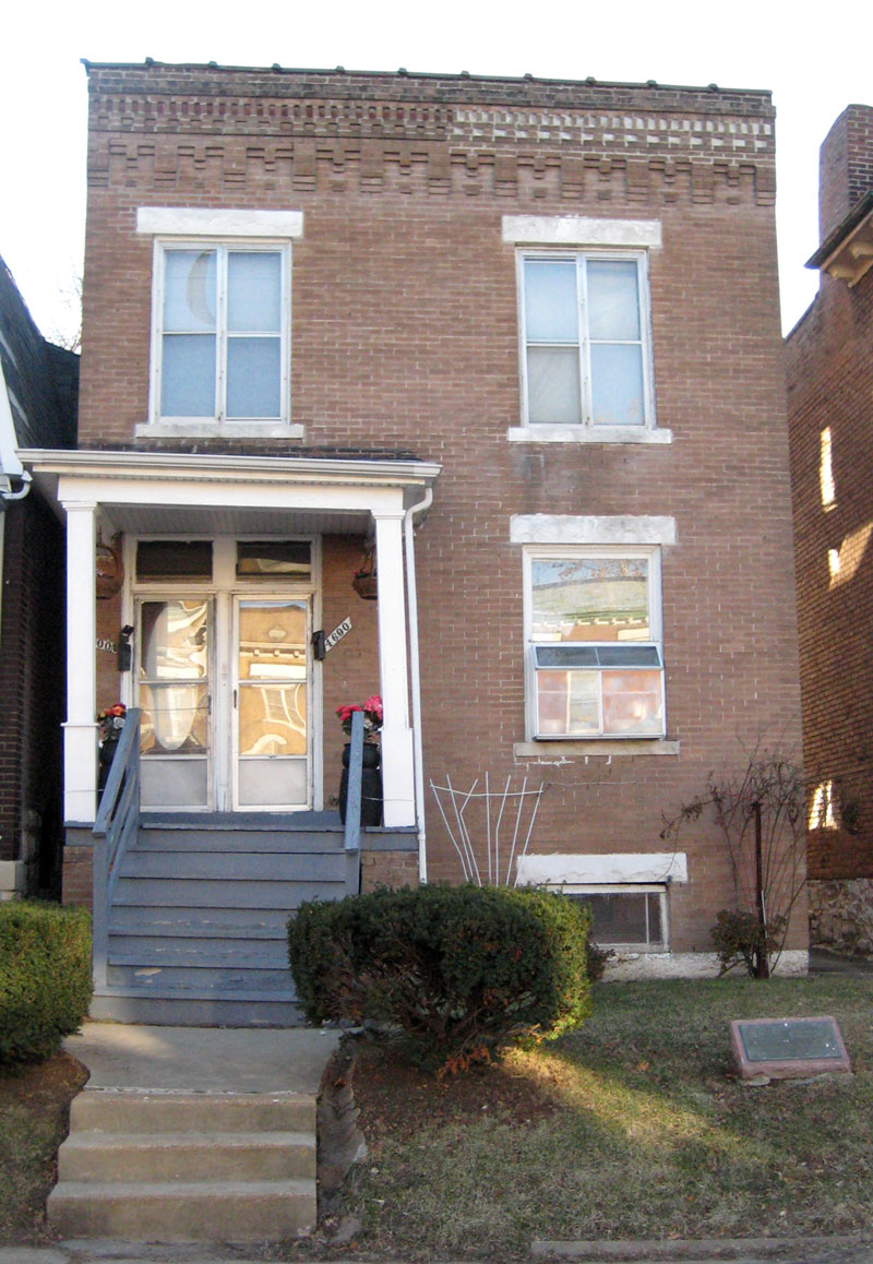 Street level view of the Shelley House in St. Louis, Missouri, USA.